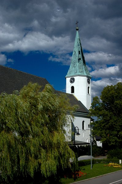 Gänserndorf, church